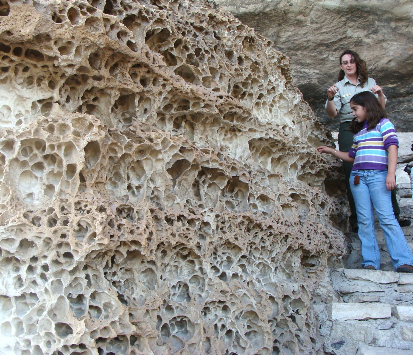 A large rock sculpted by wind erosion. Location: Seminole Canyon State Park and Historic Site, Texas.